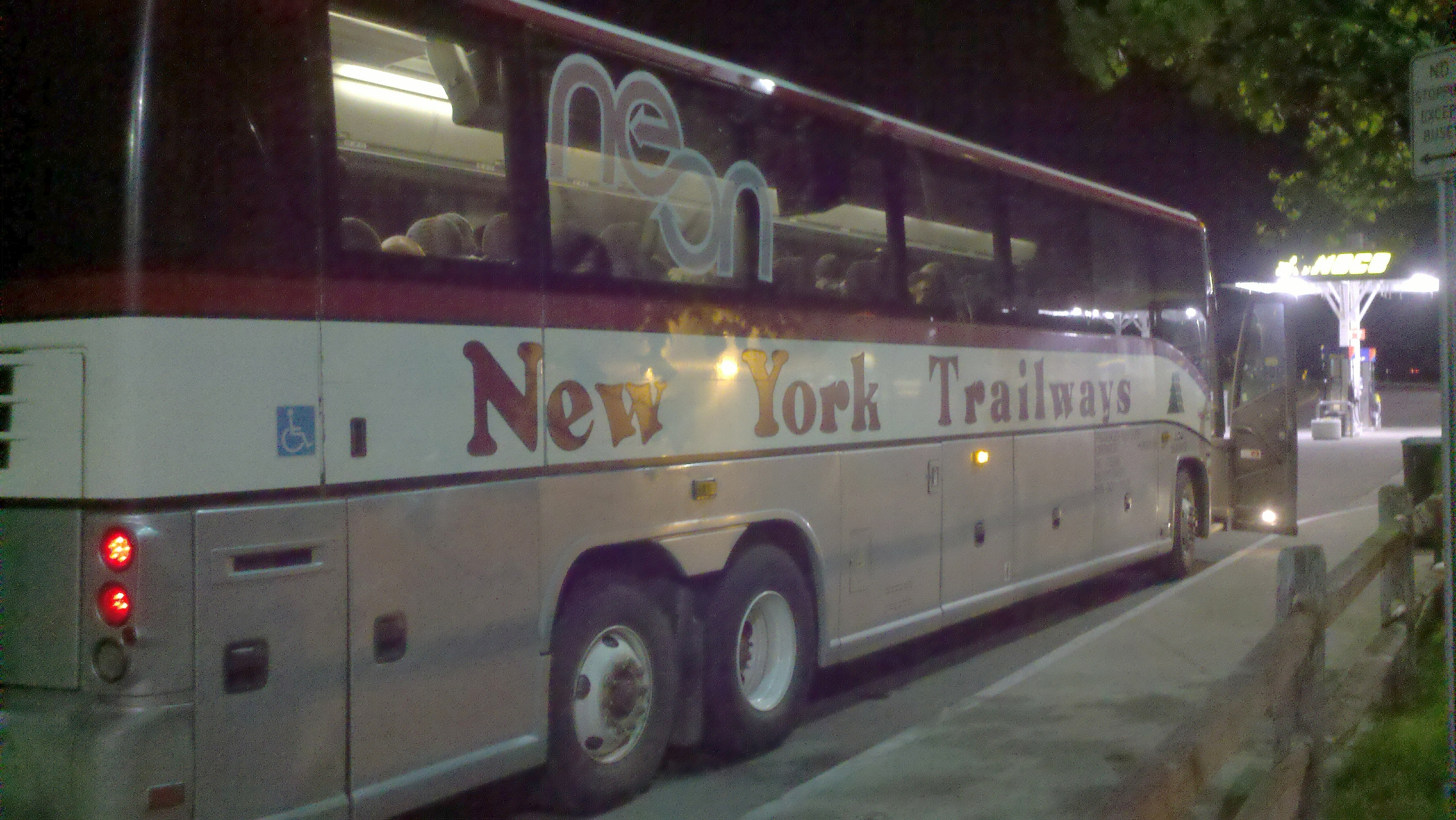 New York Trailways bus.